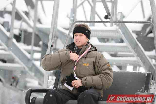 Jens Weissflog during FIS Ski Jumping World Cup in Zakopane, 2011